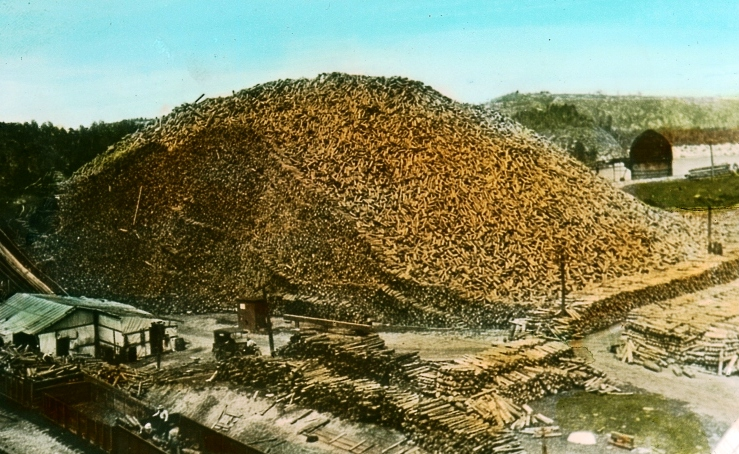 Photograph, glass lantern slide, Block pile, Spanish River Pulp & Paper Company, ON, about 1927, Anonymous, Silver salts and transparent ink on glass - Gelatin dry plate process - 8 x 10 cm